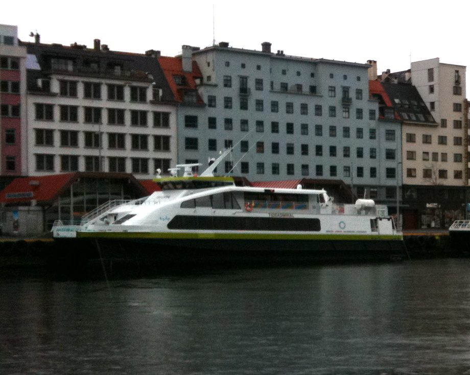 MS Tideadmiral in Bergen, Norway